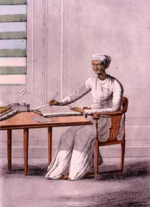 From Belgian artist Francois Baltazar Solvyns' book "Les Hindous", captioned "Kayasth, Calcutta writer"